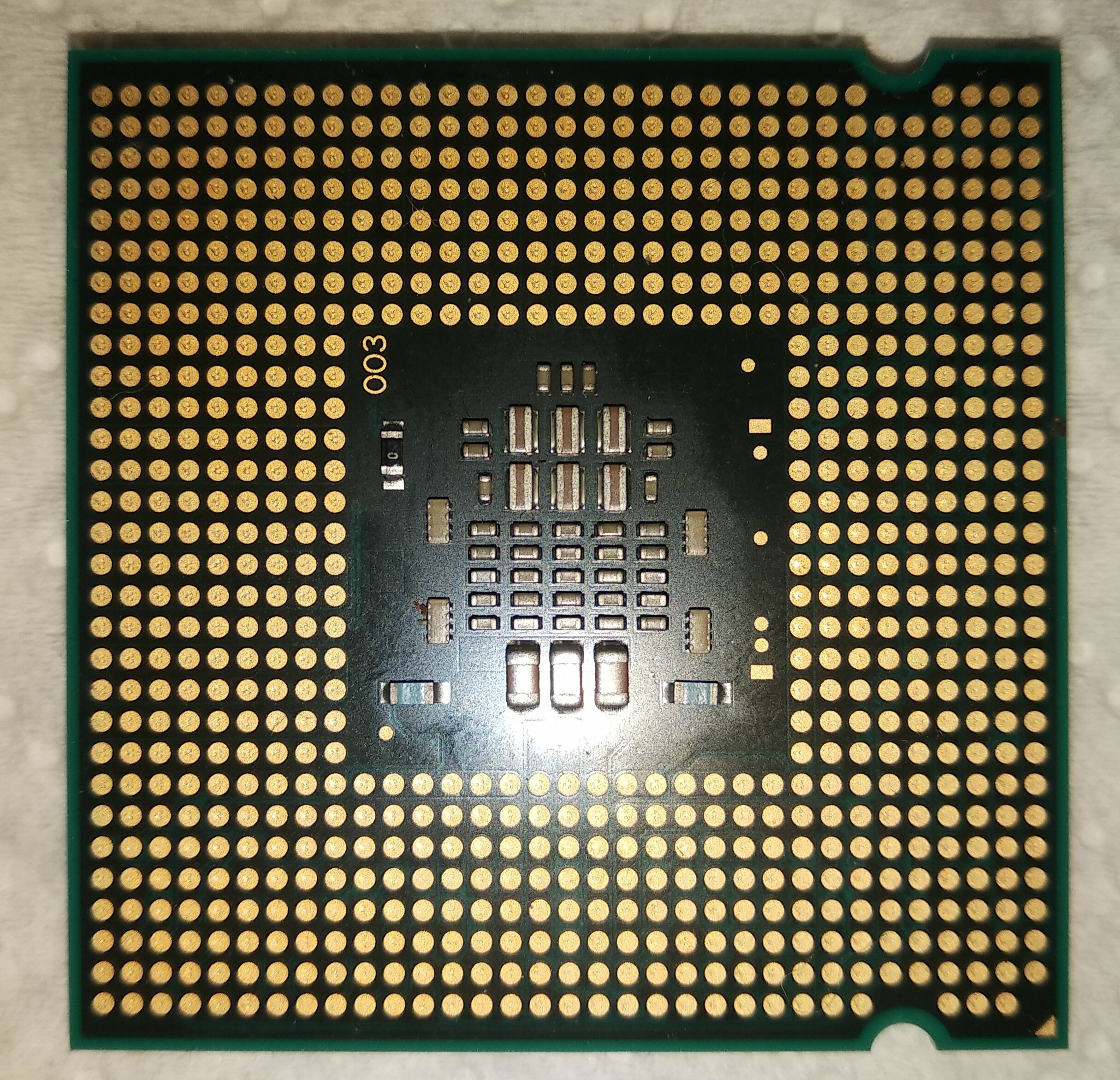 Intel Pentium Dual-Core E2140, CPU Socket 775